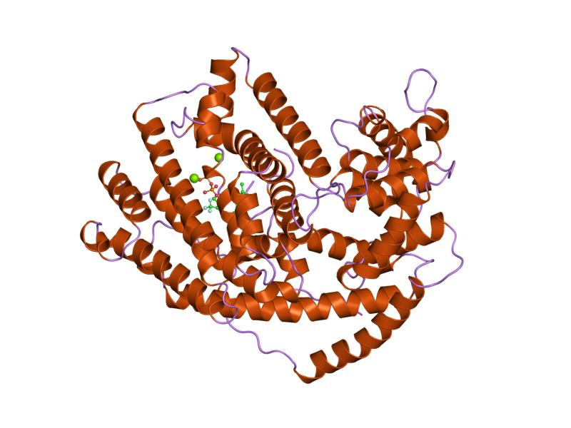 Cartoon representation of the molecular structure of protein registered with 5eau code.